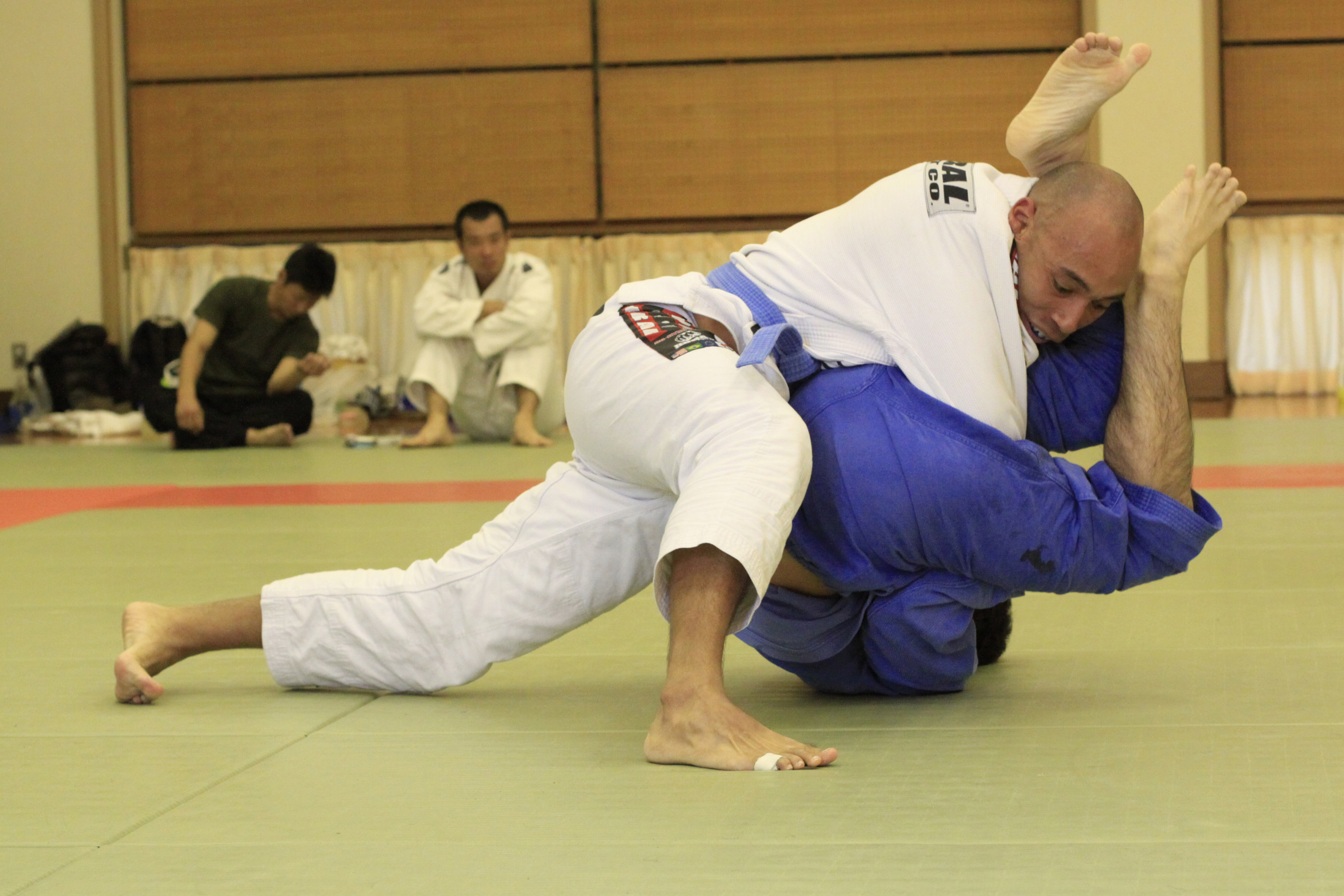 Chief Warrant Officer Sergio Esquivel, bluebelt in Jujitsu and second degree blackbelt in the Marine Corps Martial Arts program, competes against Fujioka Yu, blue-belt competitor, during the 8th Annual West Japan Jujitsu Championship tournament at the Minami Ward Sports Center in Hiroshima Sunday. The Minami Ward Sports Center in Hiroshima hosts many martial arts competitions, which are open to all competitive skill levels and techniques within the rules of the sport.